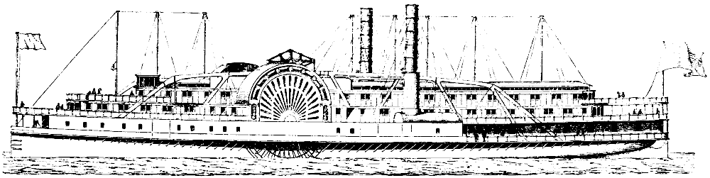 American river and coastal steamboat